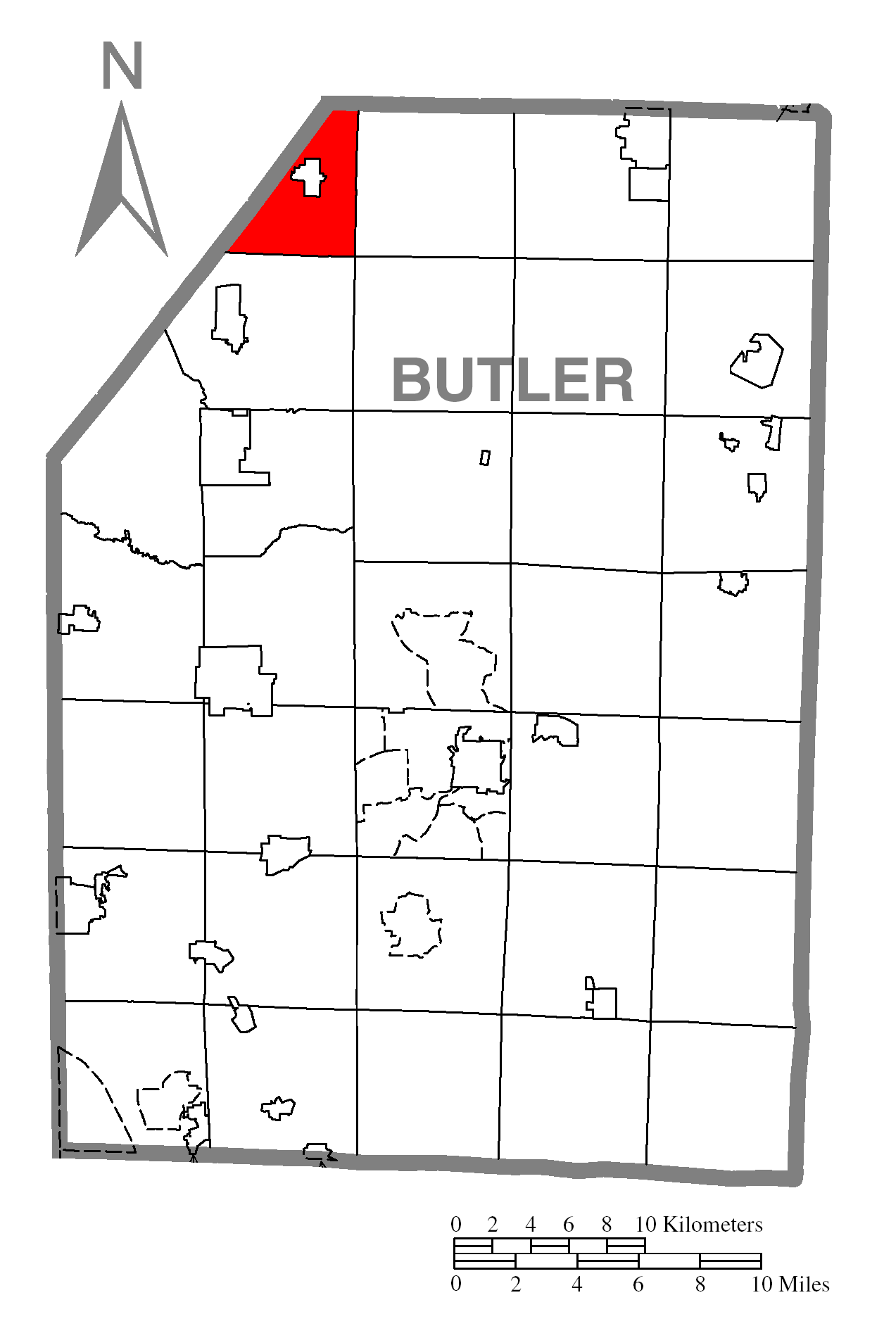 A map of Butler County showing Mercer Township, Pennsylvania (alternate) highlighted on the map.